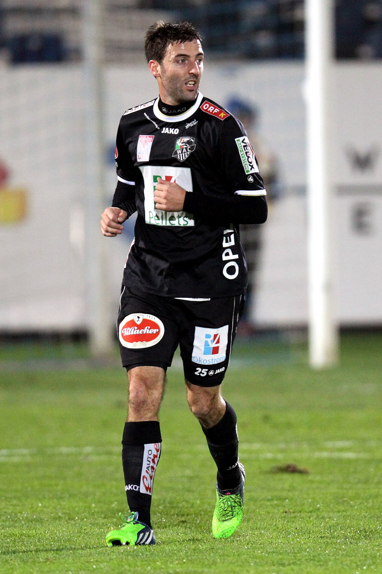 2014–15 Austrian Football Bundesliga: SC Wiener Neustadt vs. Wolfsberger AC (2:0 / 0:0) at 2014-11-22 in the Stadion Wiener Neustadt. – The photo shows en: (SC Wiener Neustadt/Wolfsberger AC). The making of this work was supported by Wikimedia Austria. For other files made with the support of Wikimedia Austria, please see the category Supported by Wikimedia Österreich.